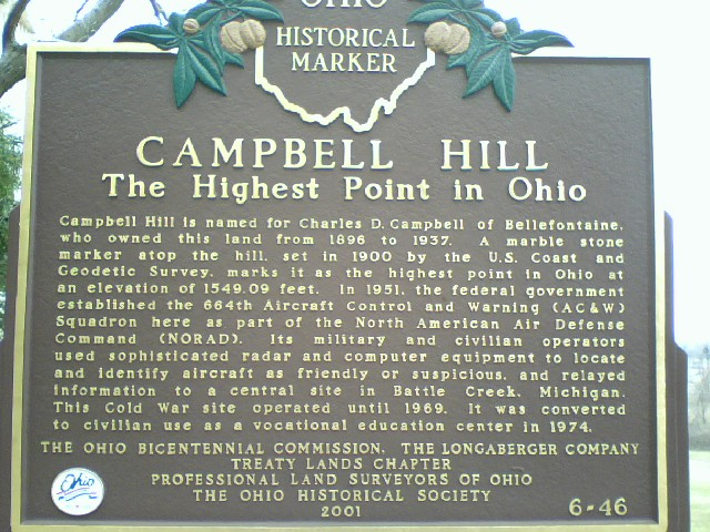 Sign at the Highest Point in Ohio Campbell Hill (Ohio)